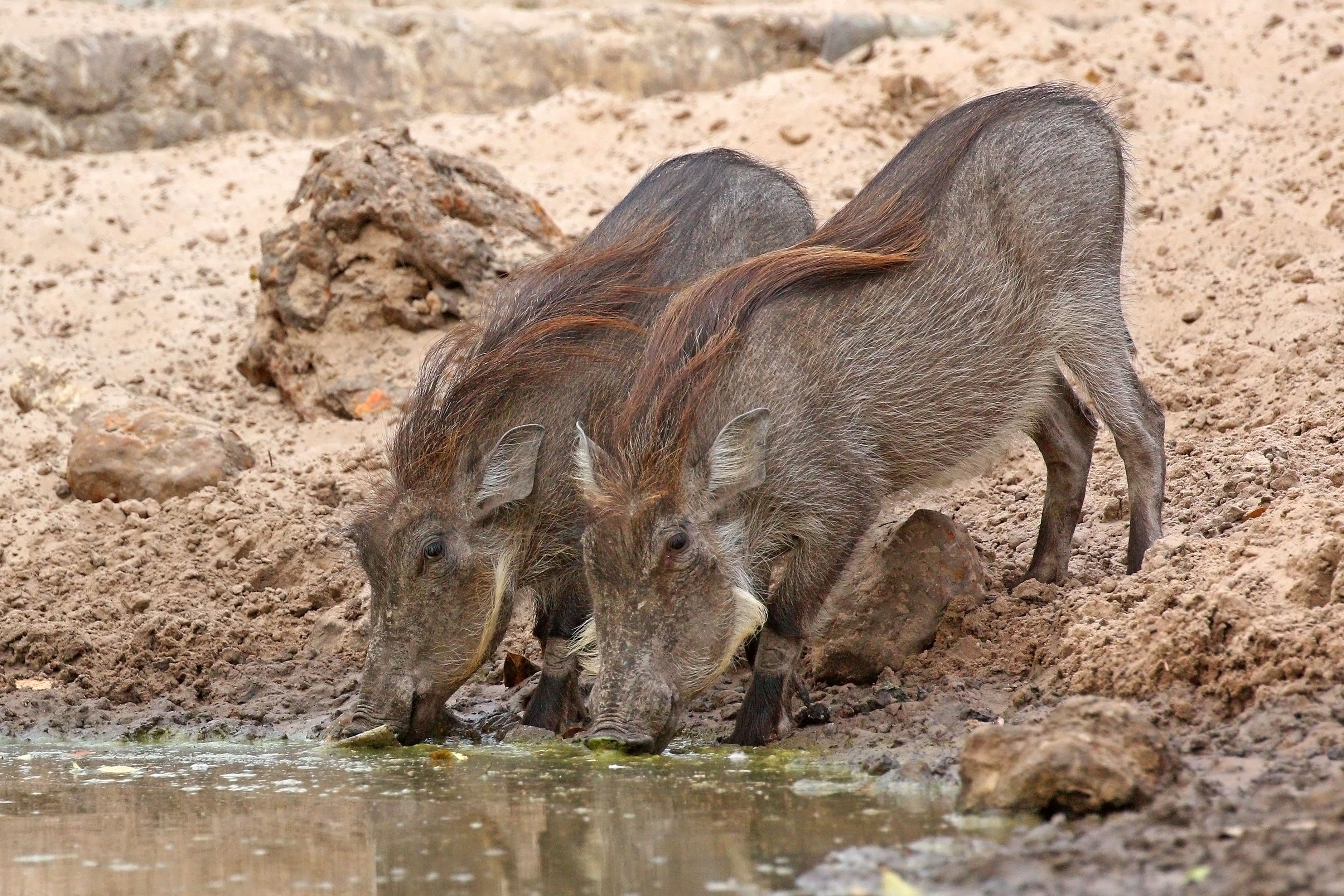 Nolan warthog (Phacochoerus africanus africanus) juveniles drinking, Senegal